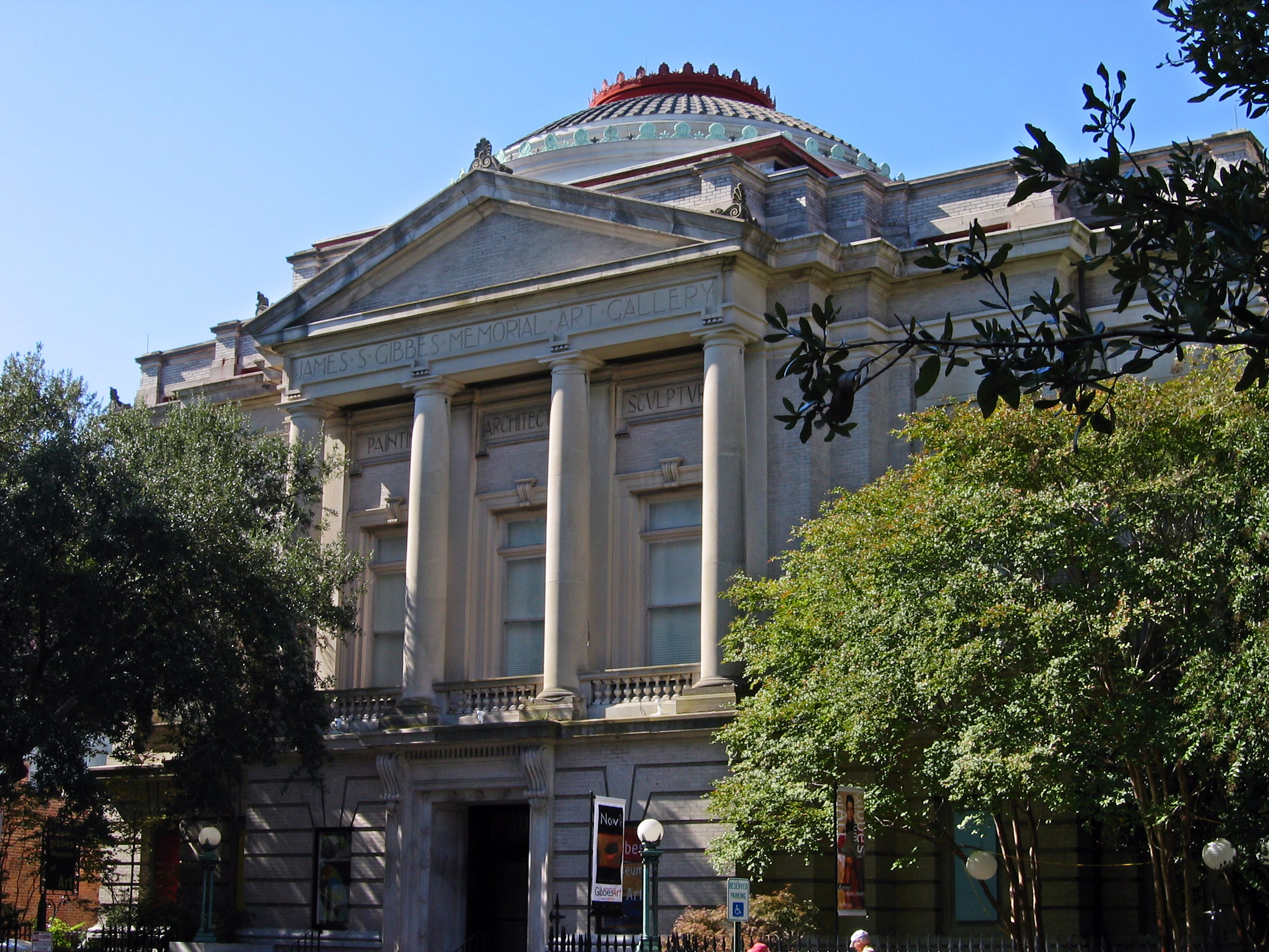 Gibbes Museum of Art, Photo by User:Aude